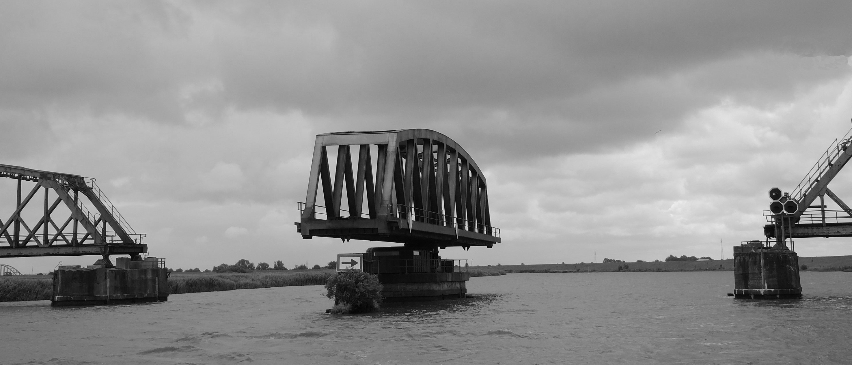 Eider Bridge